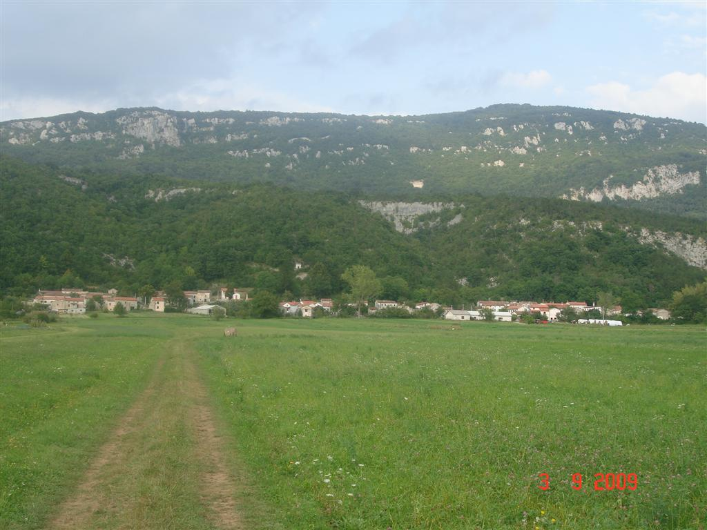 Podgace sept 2009